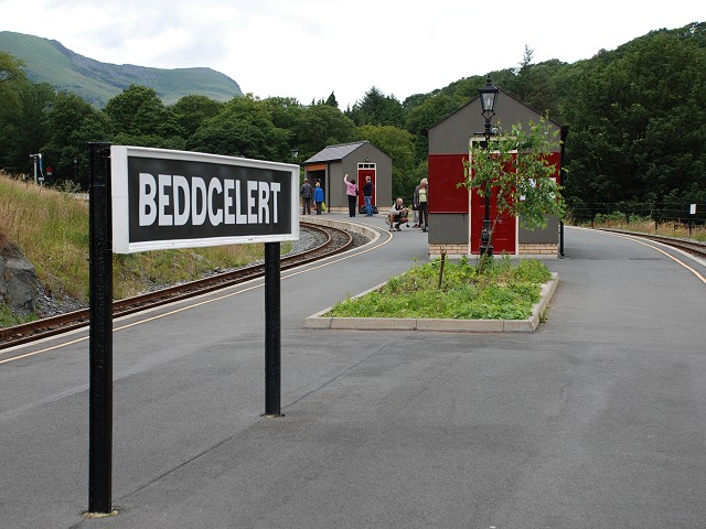 Beddgelert Station on the Welsh Highland Railway Waiting for the train from Caernarfon.